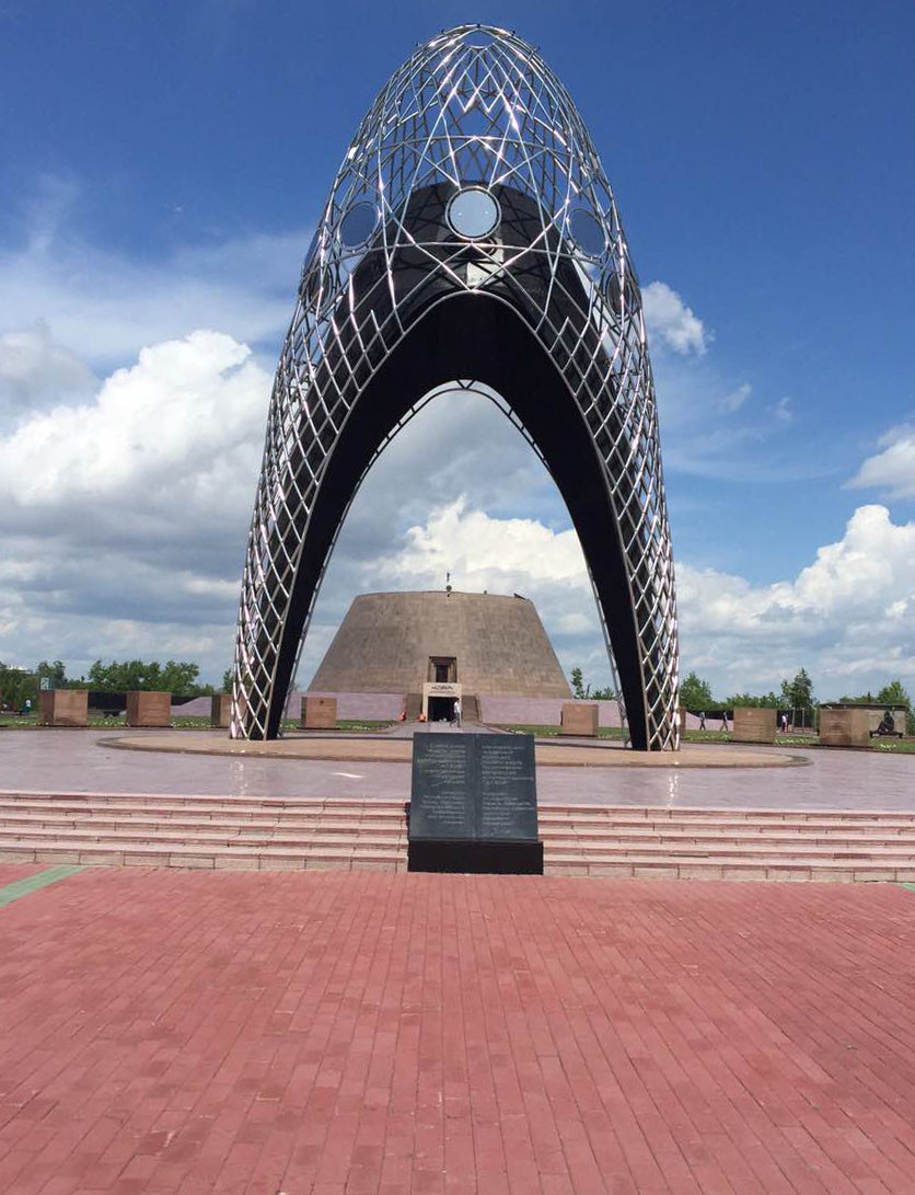 Entrance to Alzhir prison memorial in Kazakhstan